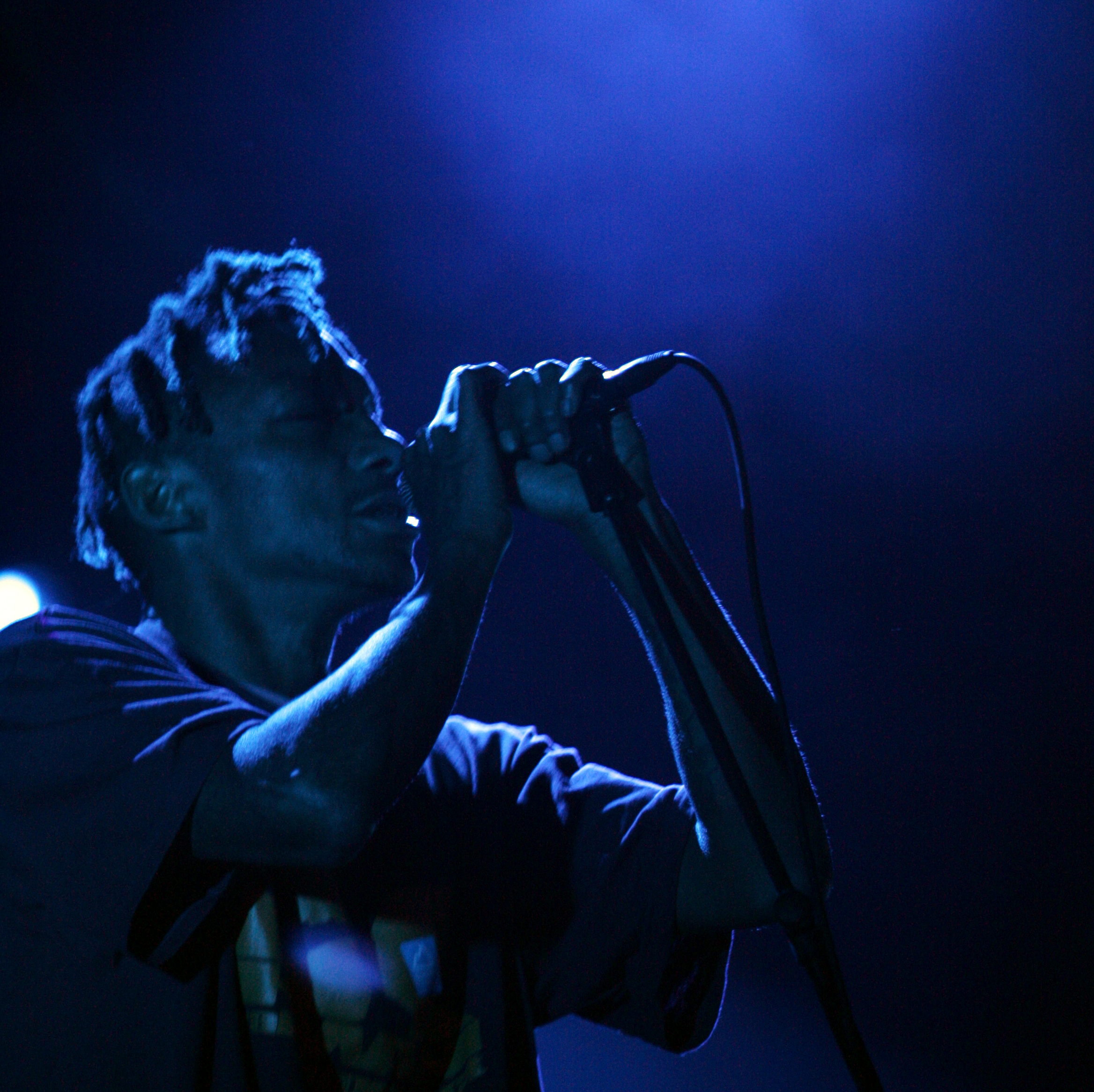 Tricky at Pully For Noise festival 2008